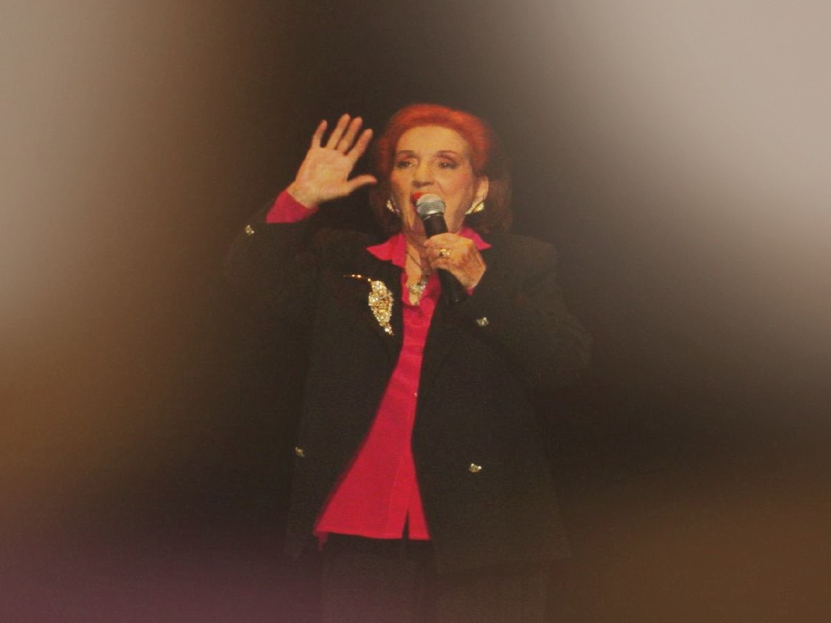 Gloria Lasso on the casino scene Contrexéville (88) France April 25, 2003